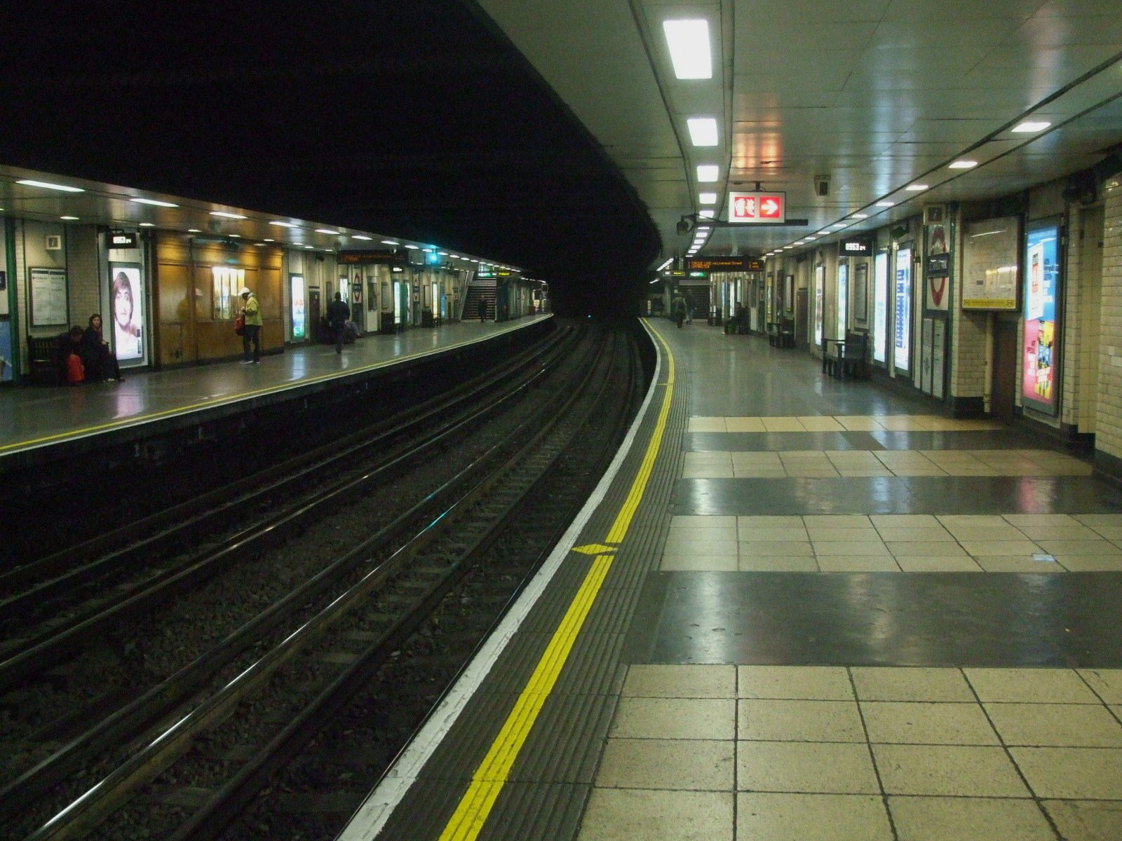 St James's Park tube station looking clockwise/westwards